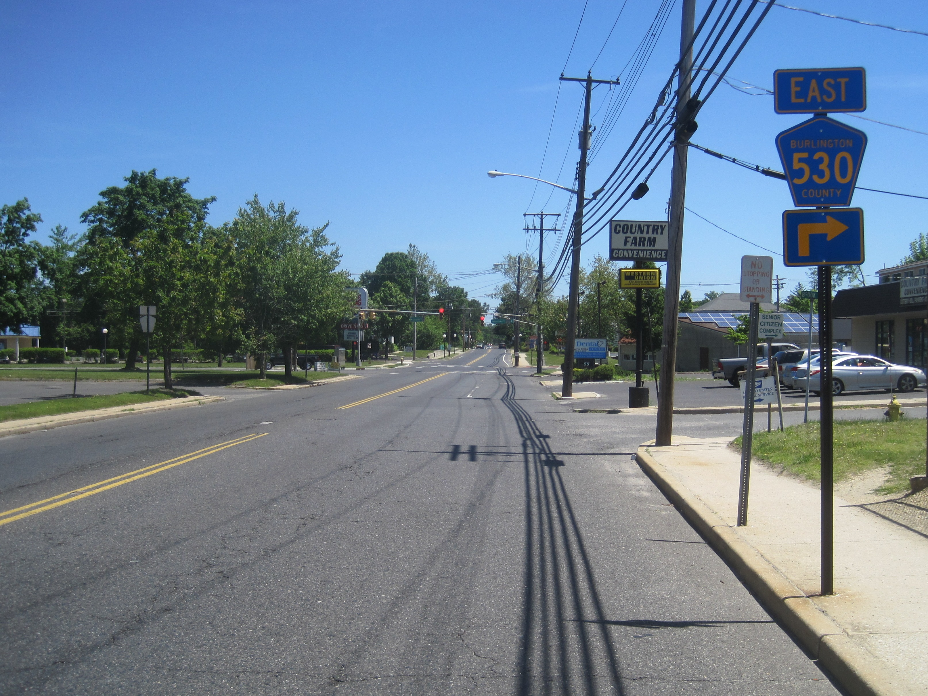 Photo showing eastbound County Route 530 in Browns Mills (within Pemberton Township) approaching its intersection with CR 667 (continues ahead) and CR 669 (begins to the left). CR 530 continues east at a right turn through this intersection.